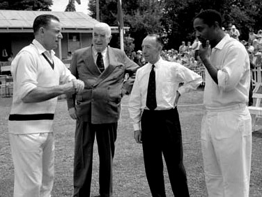 Image of former Australian prime minister Sir Robert Menzies, former Australian cricketers Ray Lindwall and Lindsay Hassett, and former West Indies cricketer Sir Frank Worrell, taken in Canberra in 1961. Courtesy of the National Archive of Australia; accessed at The NAA has granted use of the image under the GFDL and confirmation of this permission has been forwarded to the OTRS.